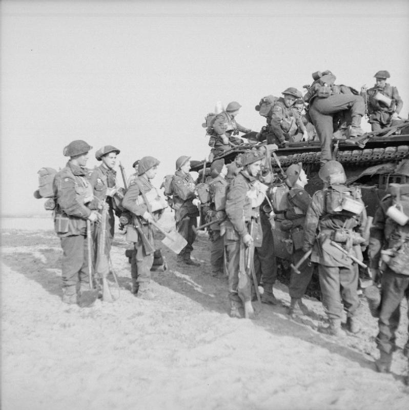 The British Army in North-west Europe 1944-45 Men of the 5th Dorsetshire Regiment climb into a Buffalo in preparation for crossing the Rhine, 28 March 1945.